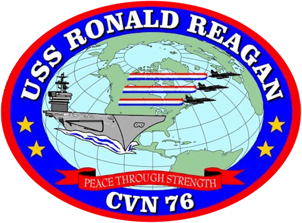 Emblem of the USS Ronald Reagan CVN-76